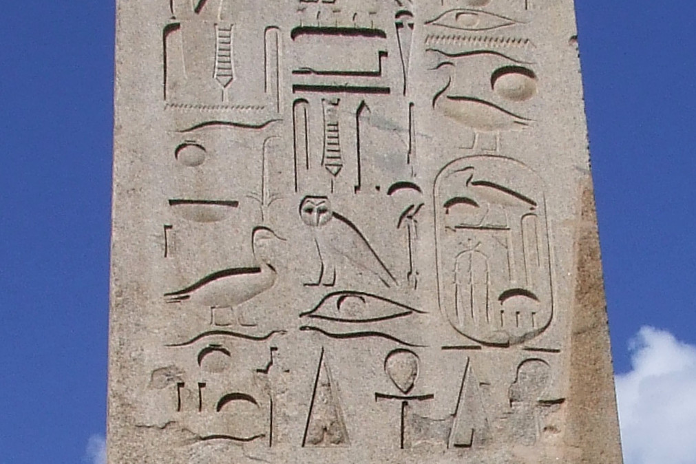 Lateran obelisk. Base of obelisk with citatation of Emperor Constantine.